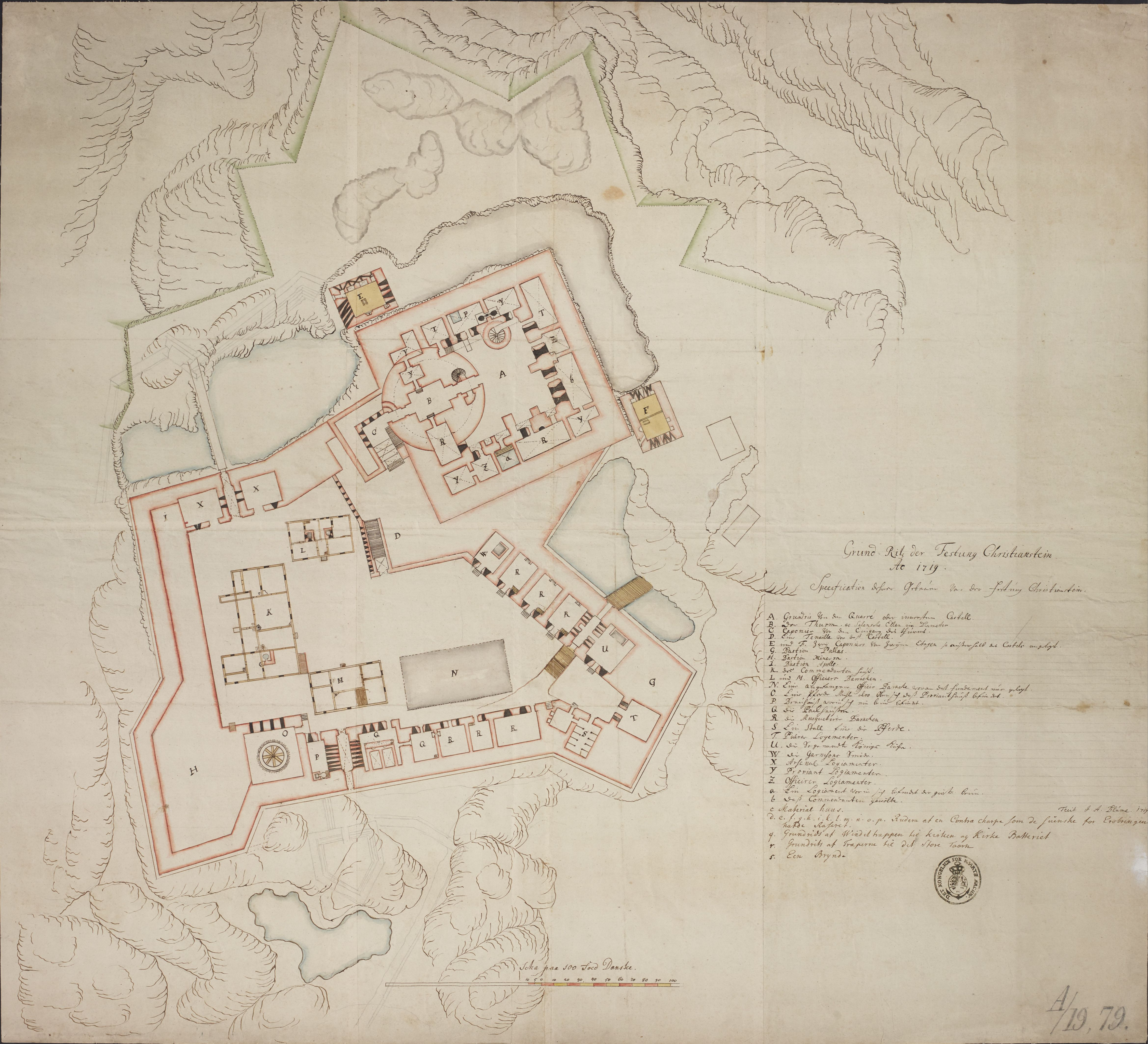 Map of the fortress Christiansten, temporary conqured by Danish-Norwegian forces 1719 i Marstrand, Sweden. Length scale in danish feet (foed).